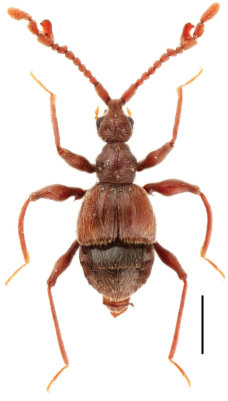 Male habitus of Pselaphodes grebennikovi. Scale: 1.0 mm.